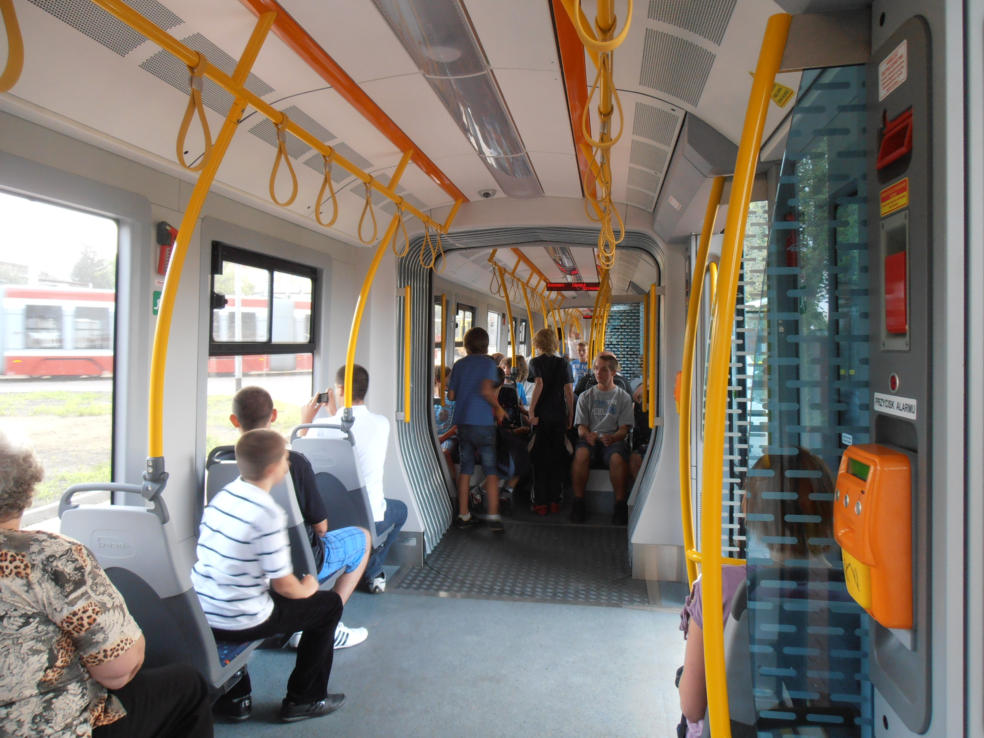 Interior of PESA Twist